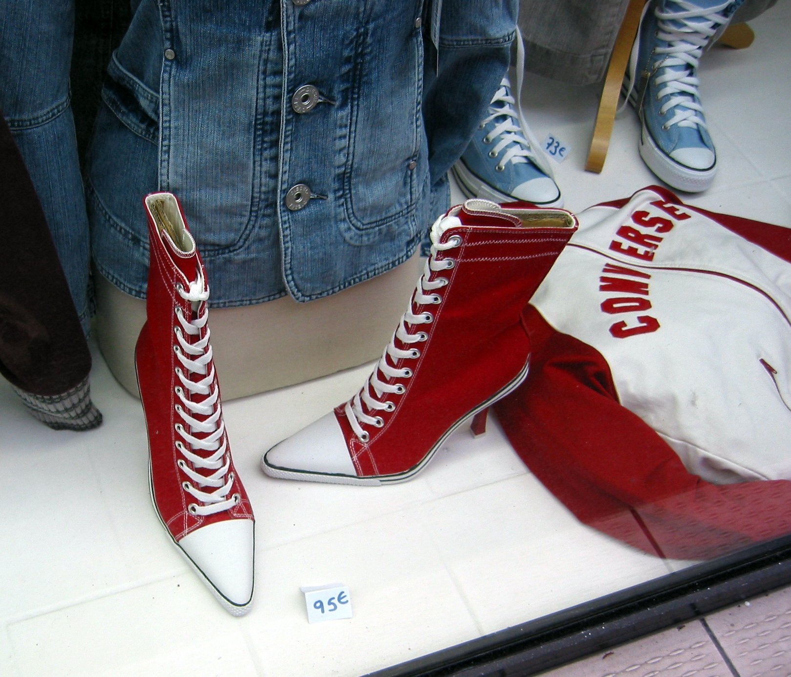 Converse high fashion, Paris, December, 2003